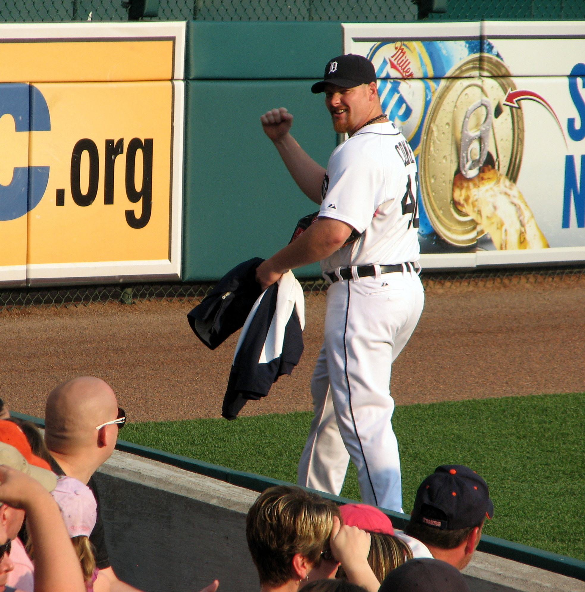 Phil Coke walking to the bullpen at Comerica Park